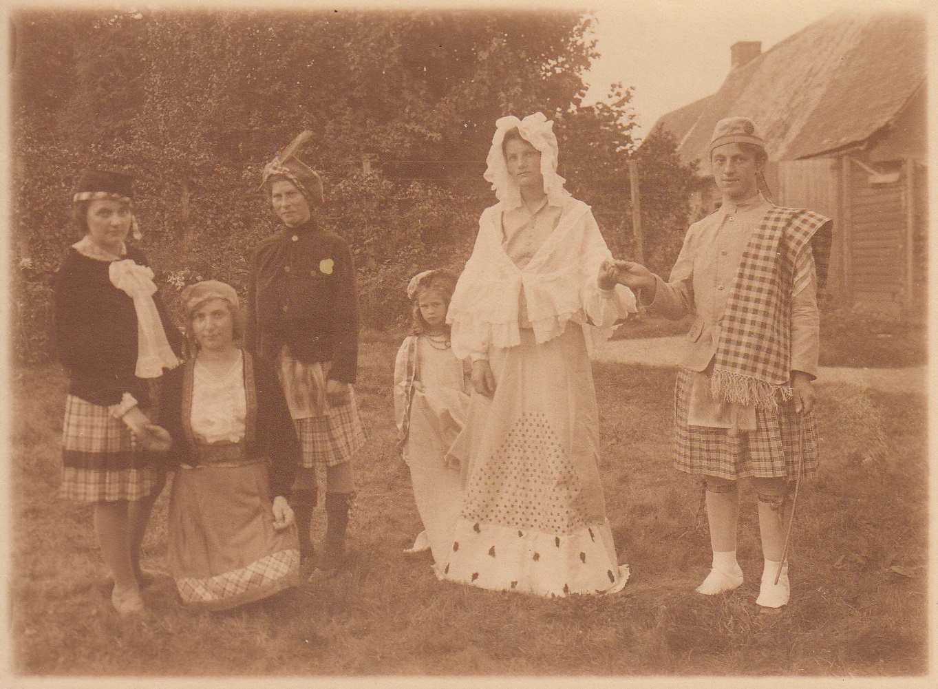 La dame blanche (The White Lady), opéra comique by the French composer François-Adrien Boieldieu played at Sarcus in 1929.